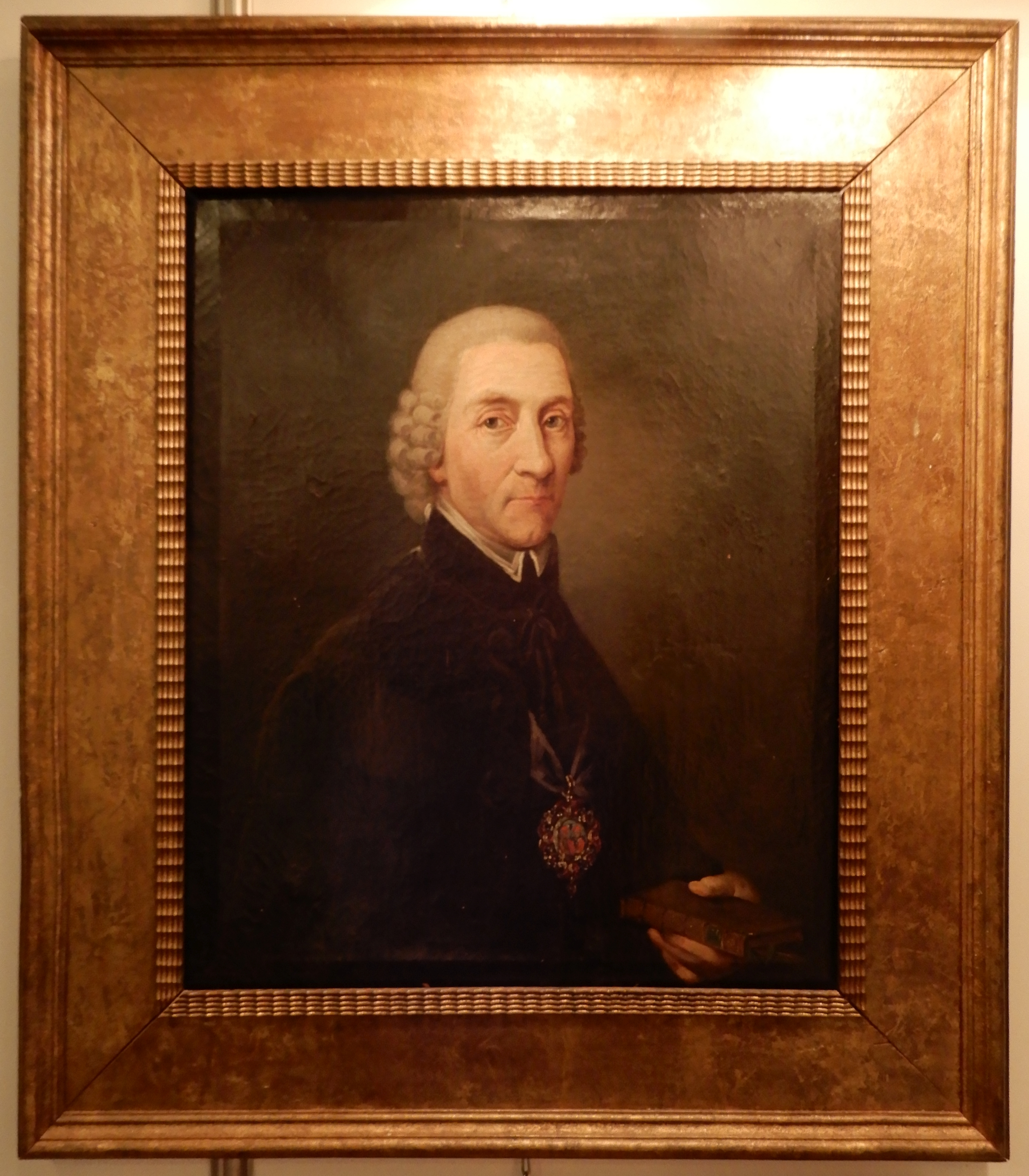 Ambrosius Schmidt, professor of theology on the Norbertinum College in Prague, died 1807